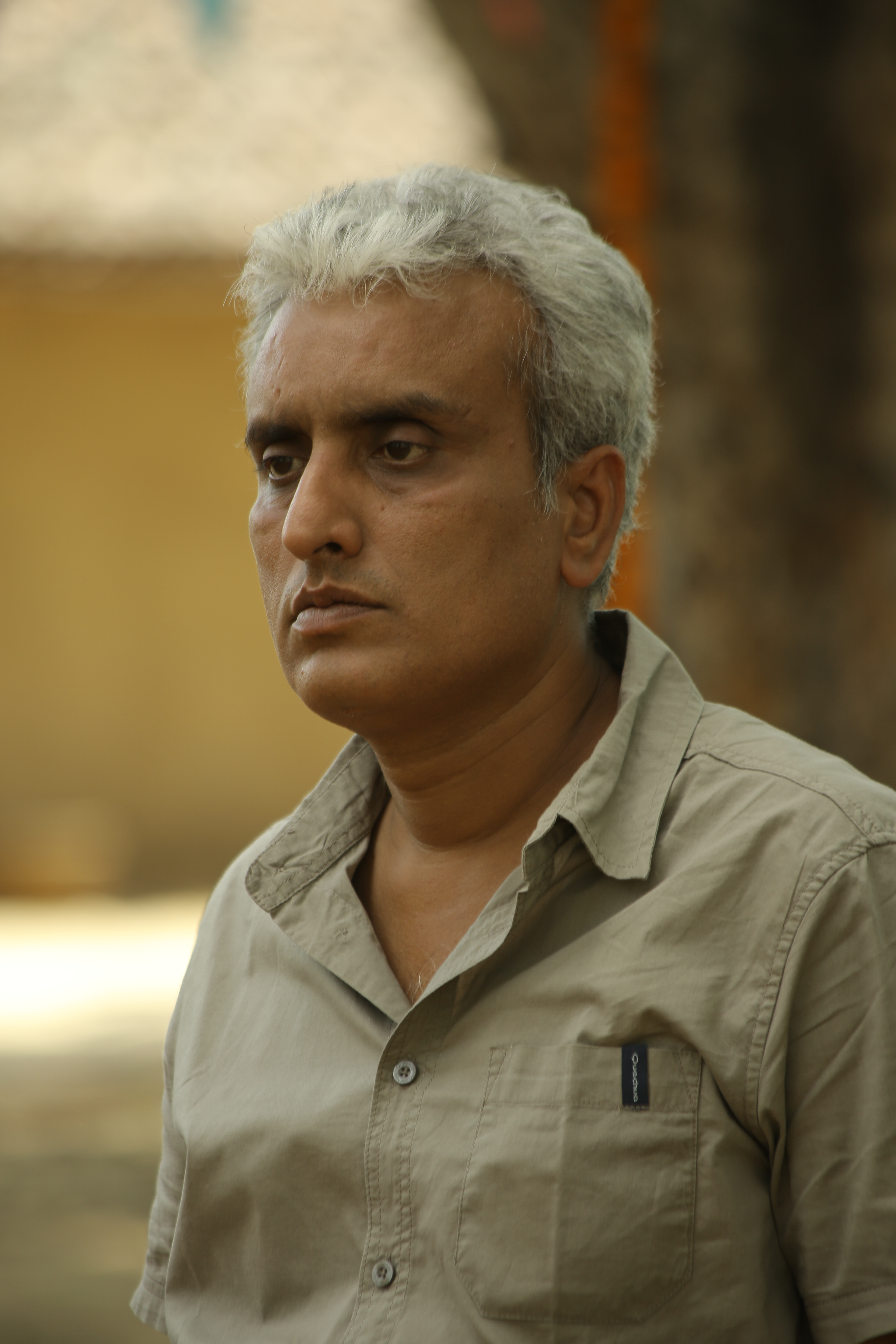 This photograph was clicked during the shoot of film "Panchlait" on an outdoor location in Jharkhand, India.